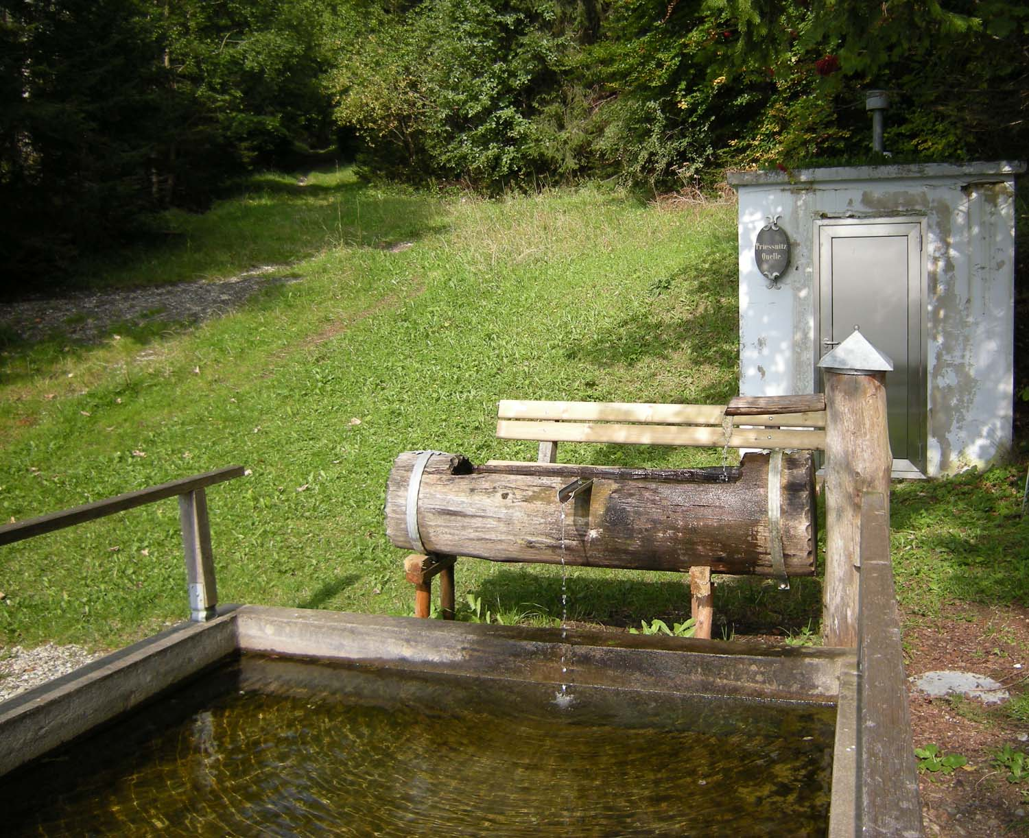 Sankt Radegund bei Graz views